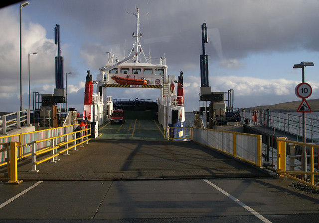 MV Bigga at Hamars Ness, Fetlar: The larger of the two ferries currently on Bluemull Sound does the mid-morning mail run, and the mail van is on collecting the post; the MV Geira does the other Fetlar runs.